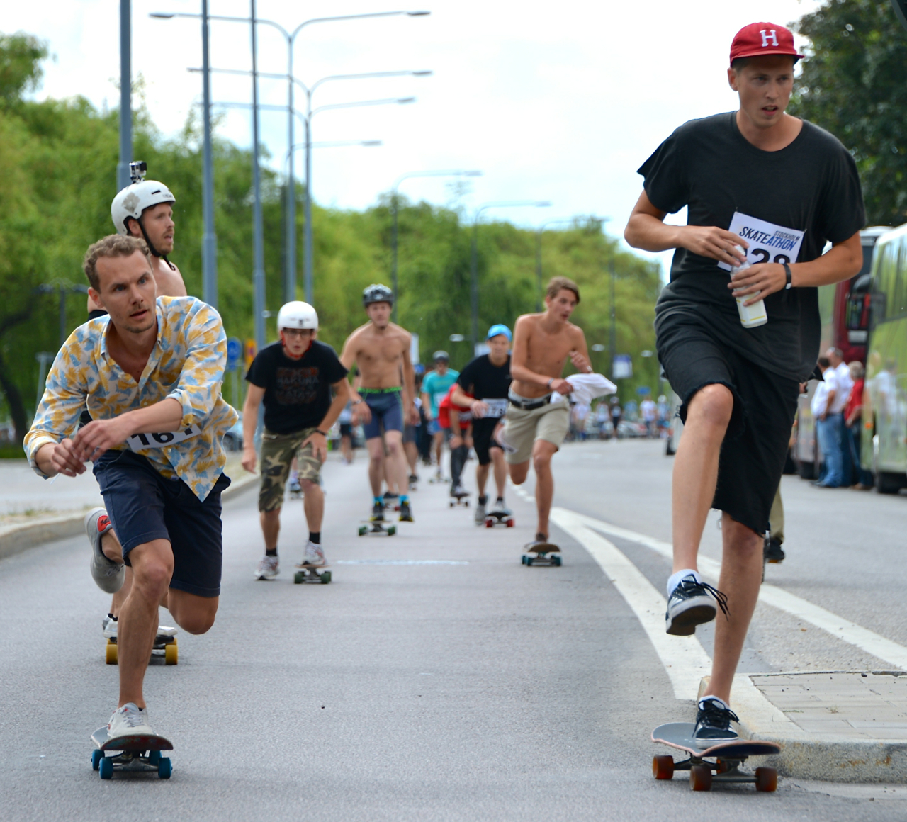 Stockholm Skateathon July 19, 2014 at Norrmälarstrand on Kungsholmen.